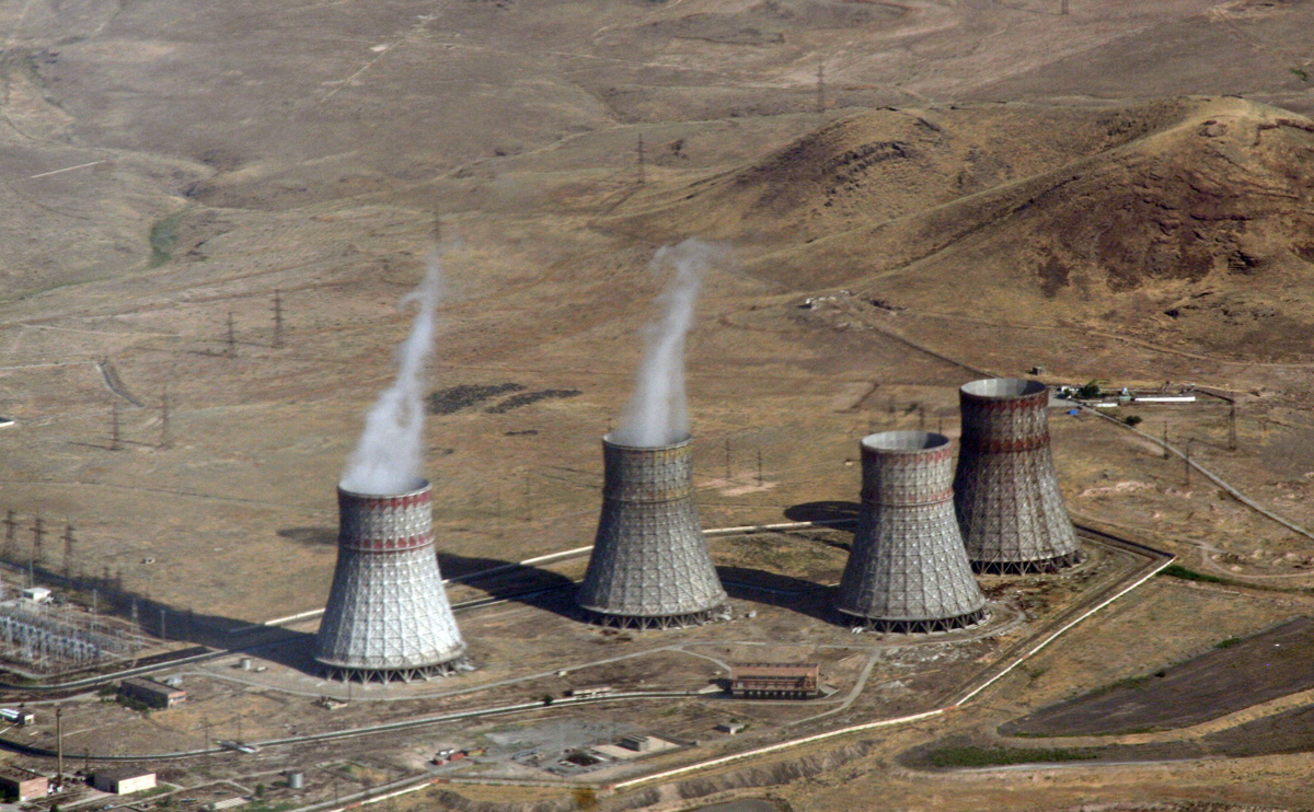 Cooling towers of the Armenian Nuclear Power Plant, also known as Metsamor